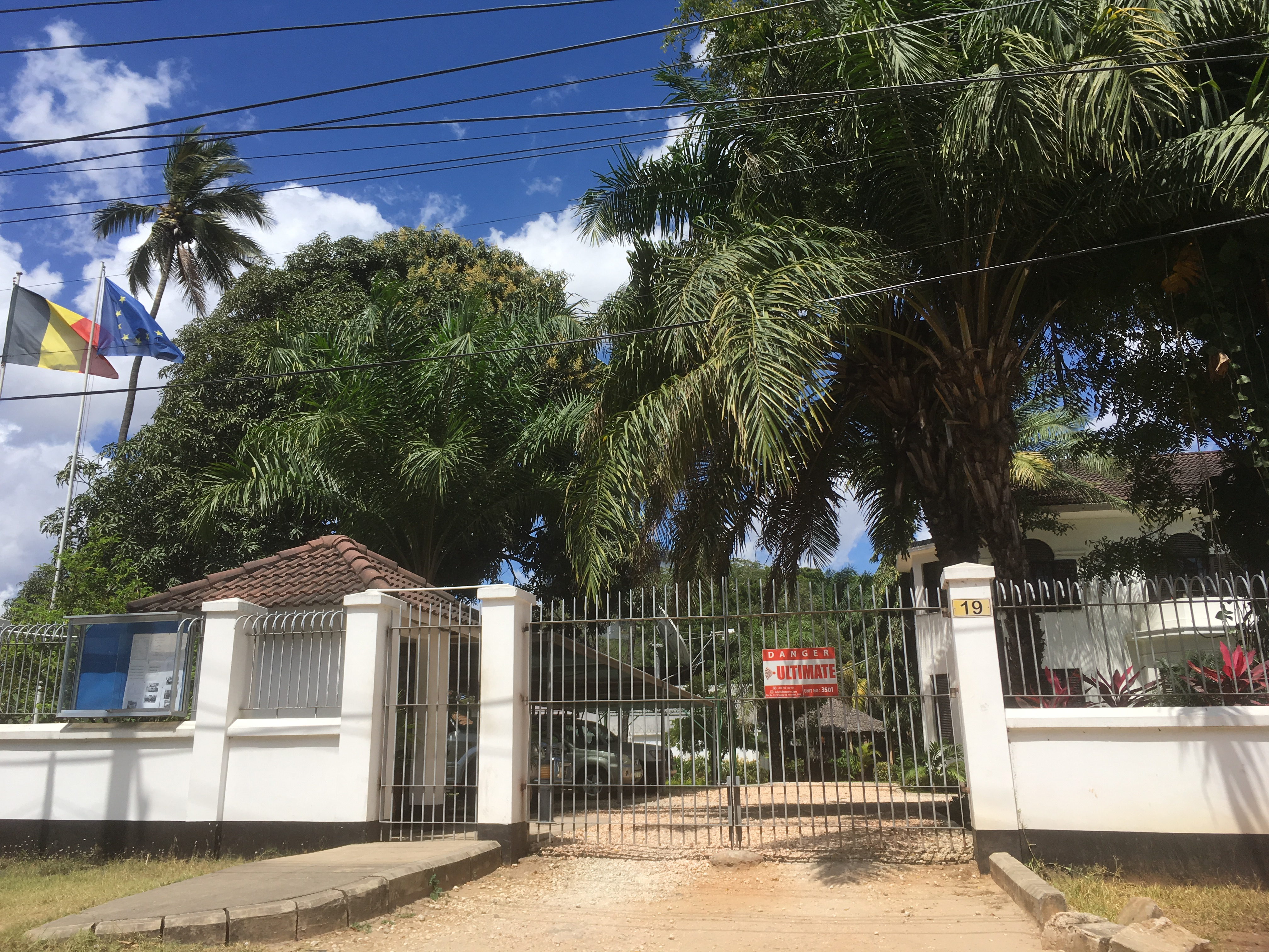 Embassy of Belgium in Tanzania